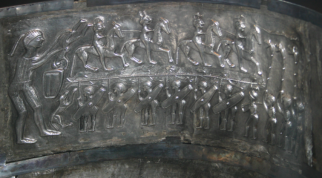 Gundestrupkarret (the Gundestrup Cauldron) - one of the inside panels. The celtic style cauldron can be seen at display at the National Museum (Nationalmuseet) in Denmark. See more photos of the Cauldron at the page about the Celts.